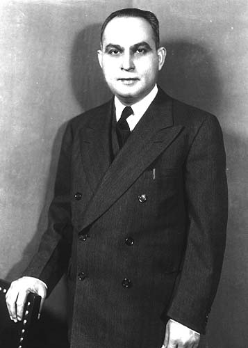 Bolívar Pagán